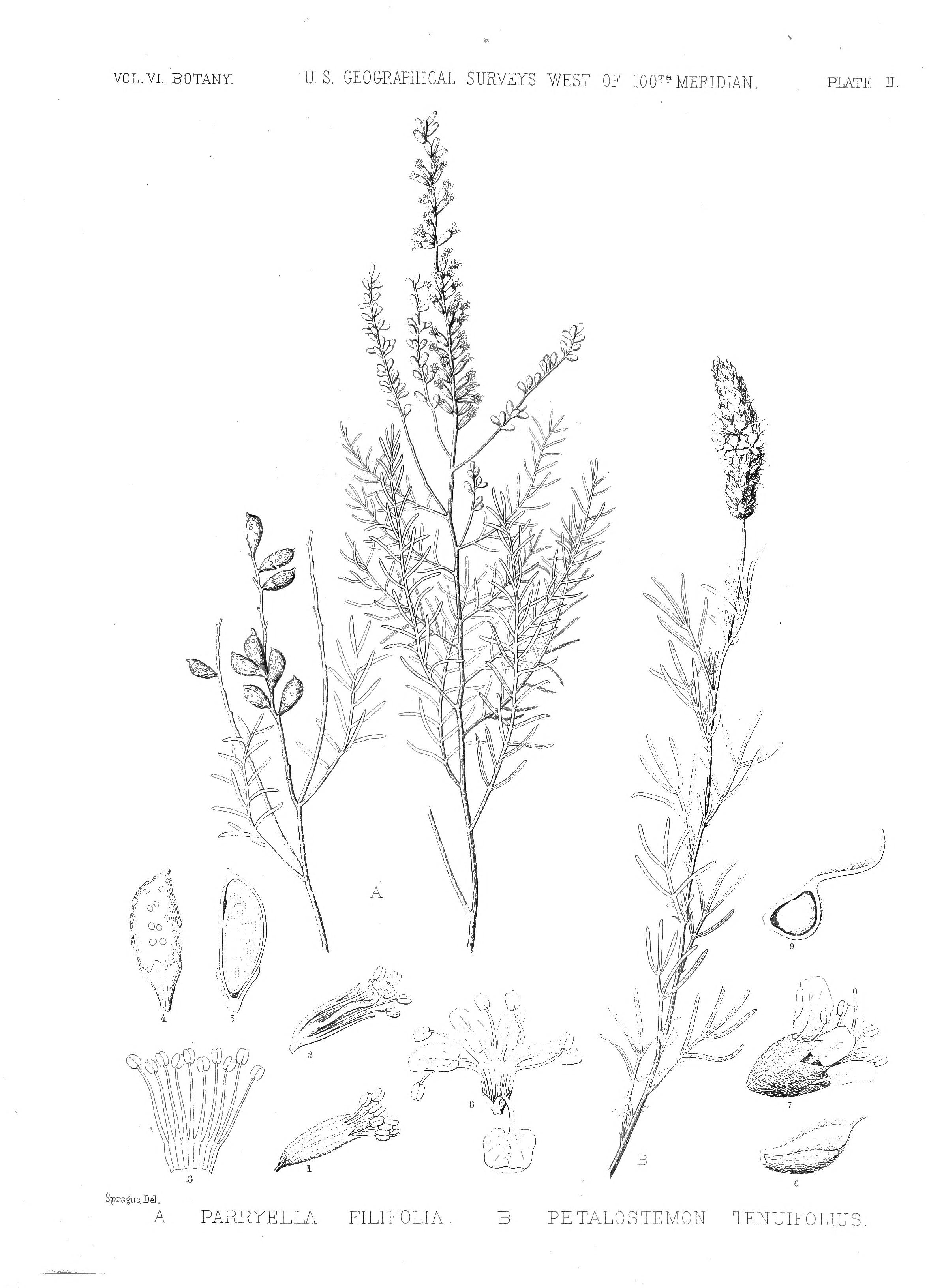 Title: Report upon United States Geographical surveys west of the one hundredth meridian Year: 1875 (1870s) Authors: Geographical Surveys West of the 100th Meridian (U. S. ); Wheeler, George M. (George Montague), 1842-1905; Humphreys, A. A. (Andrew Atkinson), 1810-1883; Wright, Horation Gouverneur, 1820-1899; Hodge, Frederick Webb, 1864-1956. fmo; Museum of the American Indian, Heye Foundation. fmo; Huntington Free Library. fmo Subjects: Publisher: Washington, Govt. print. off. Text Appearing Before Image: VOL. VI.. BOTANY". â U.S. GEOGRAPHICAL SURVEYS WEST OF 100thMERIDIAN. PLATE II. Text Appearing After Image: PARRYELLA FILIFOLIA B PETALOSTEMON TENUIFOLIUS.